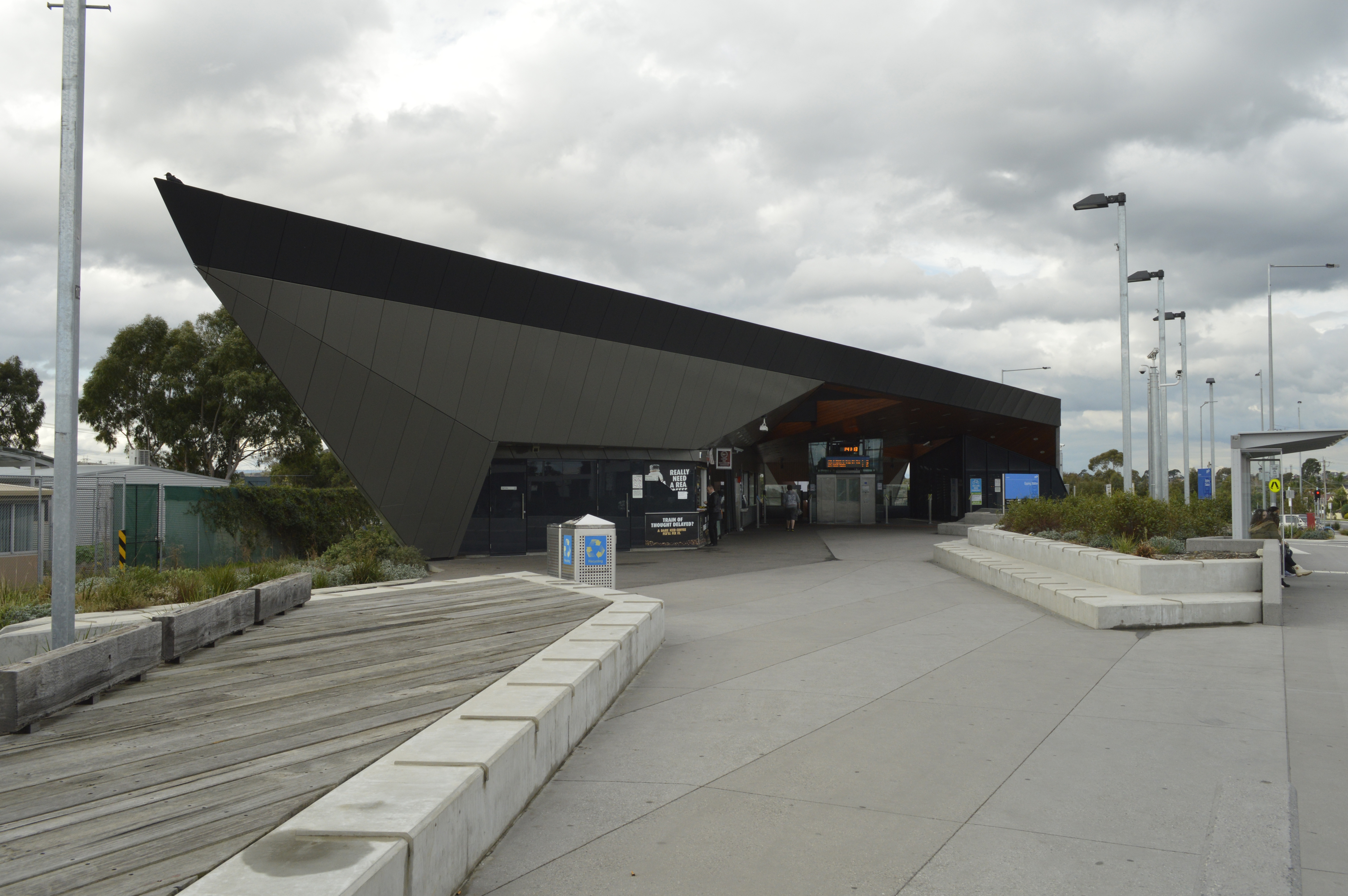 Main entrance